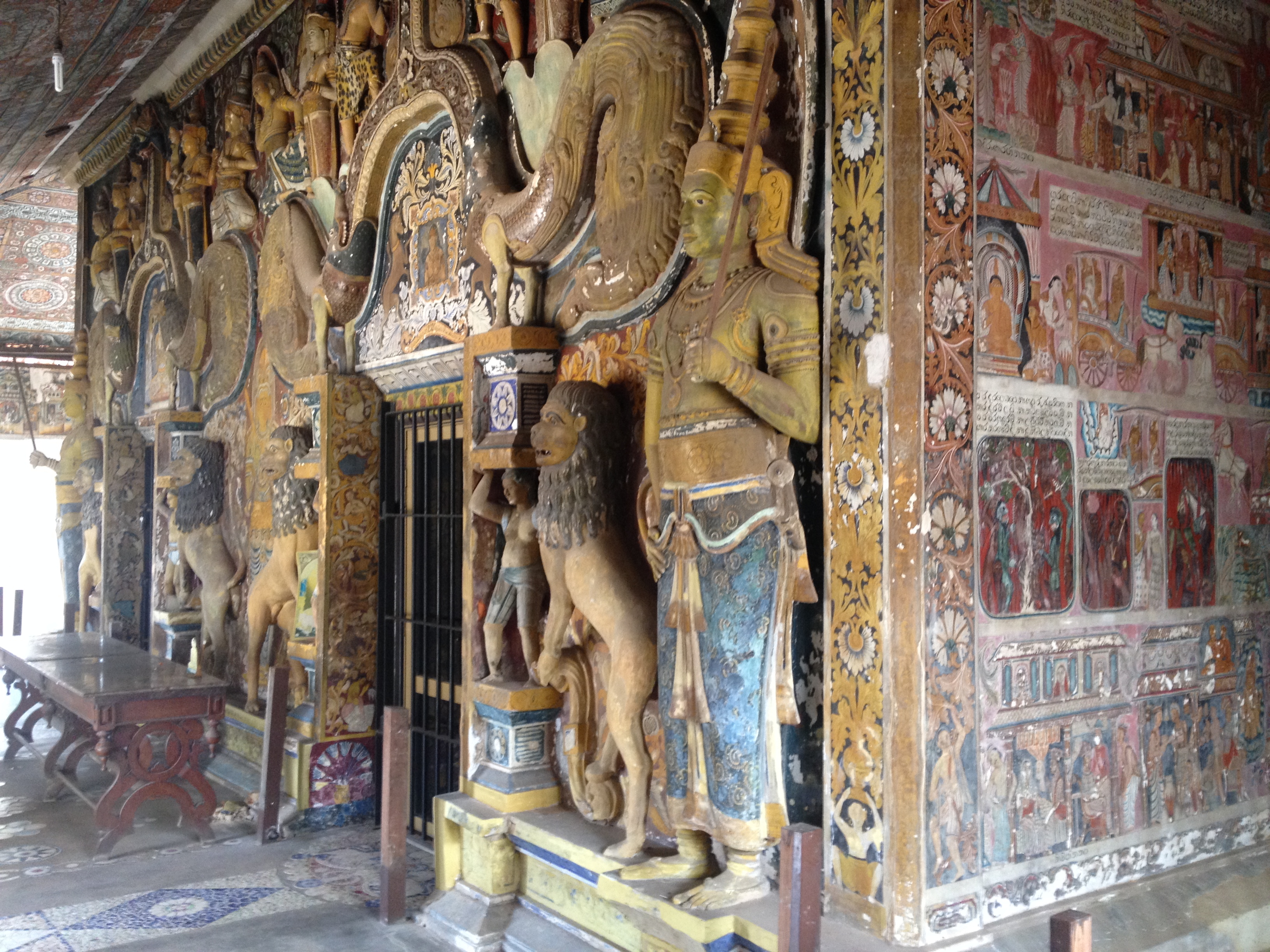 Murals and paintings at the Subodharama (Karagampitiya) temple, Sri Lanka.